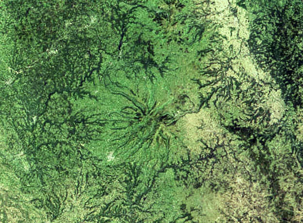 part of NASA satellite view of Frane focused on Cantal